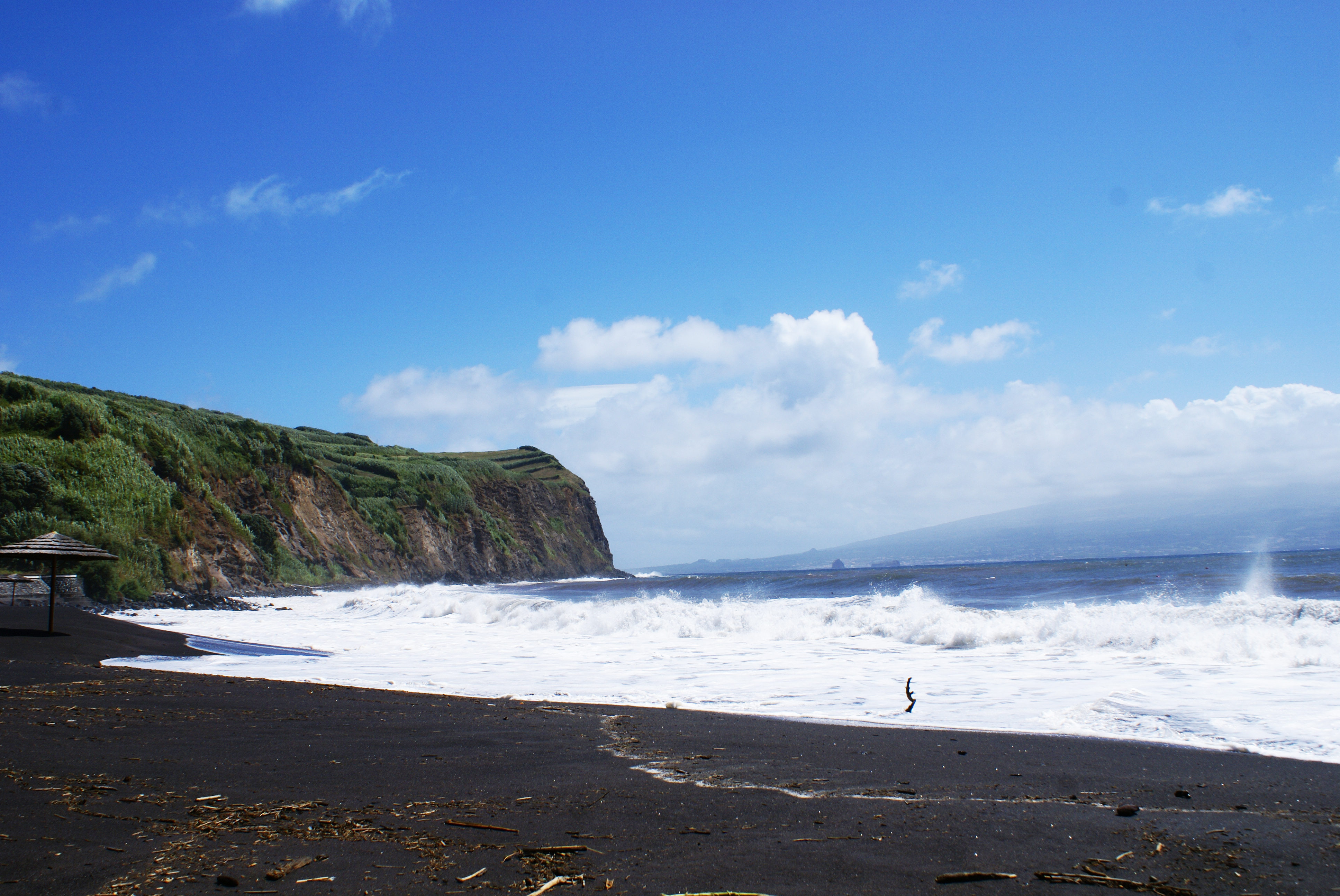 Praia da Conceição em dia de tempestade, concelho da Horta, ilha do Faial, Açores, Portugal